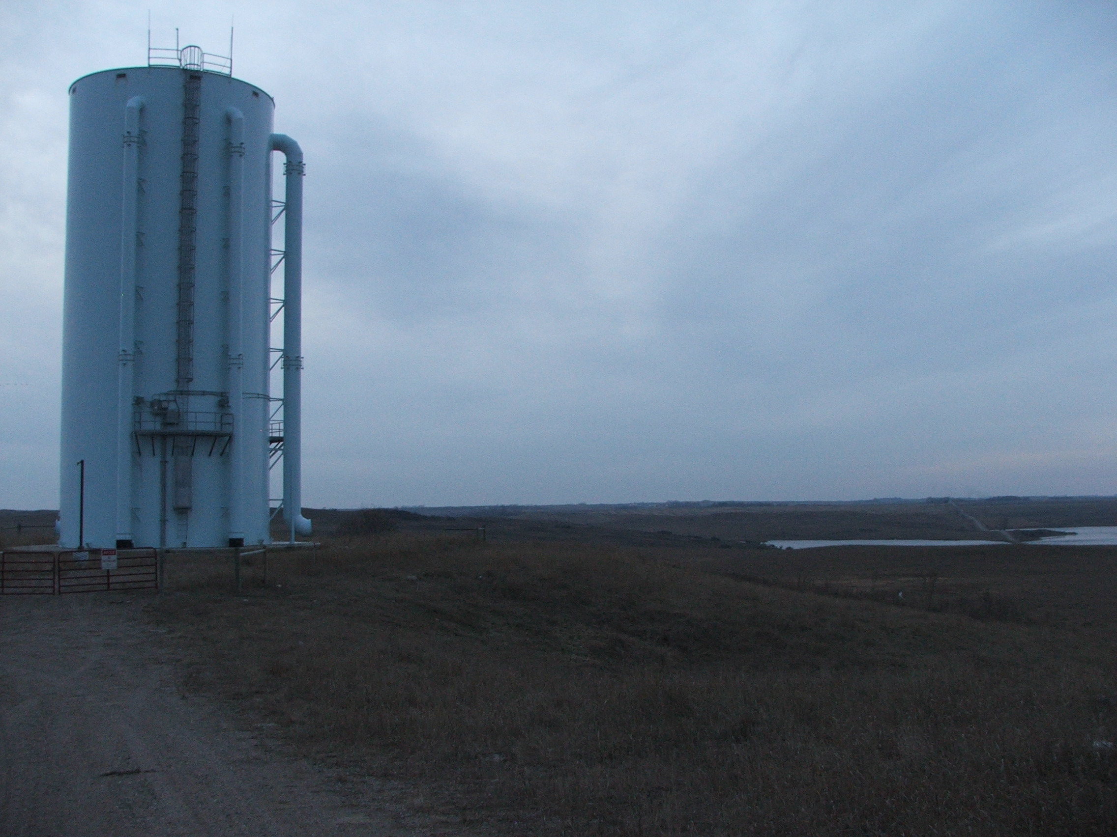 One of two large standpipes used to regulate water flow over the divide between Devils Lake and the Sheyenne River, Ramsey County, North Dakota, USA. The Long Lake can be seen in the background.